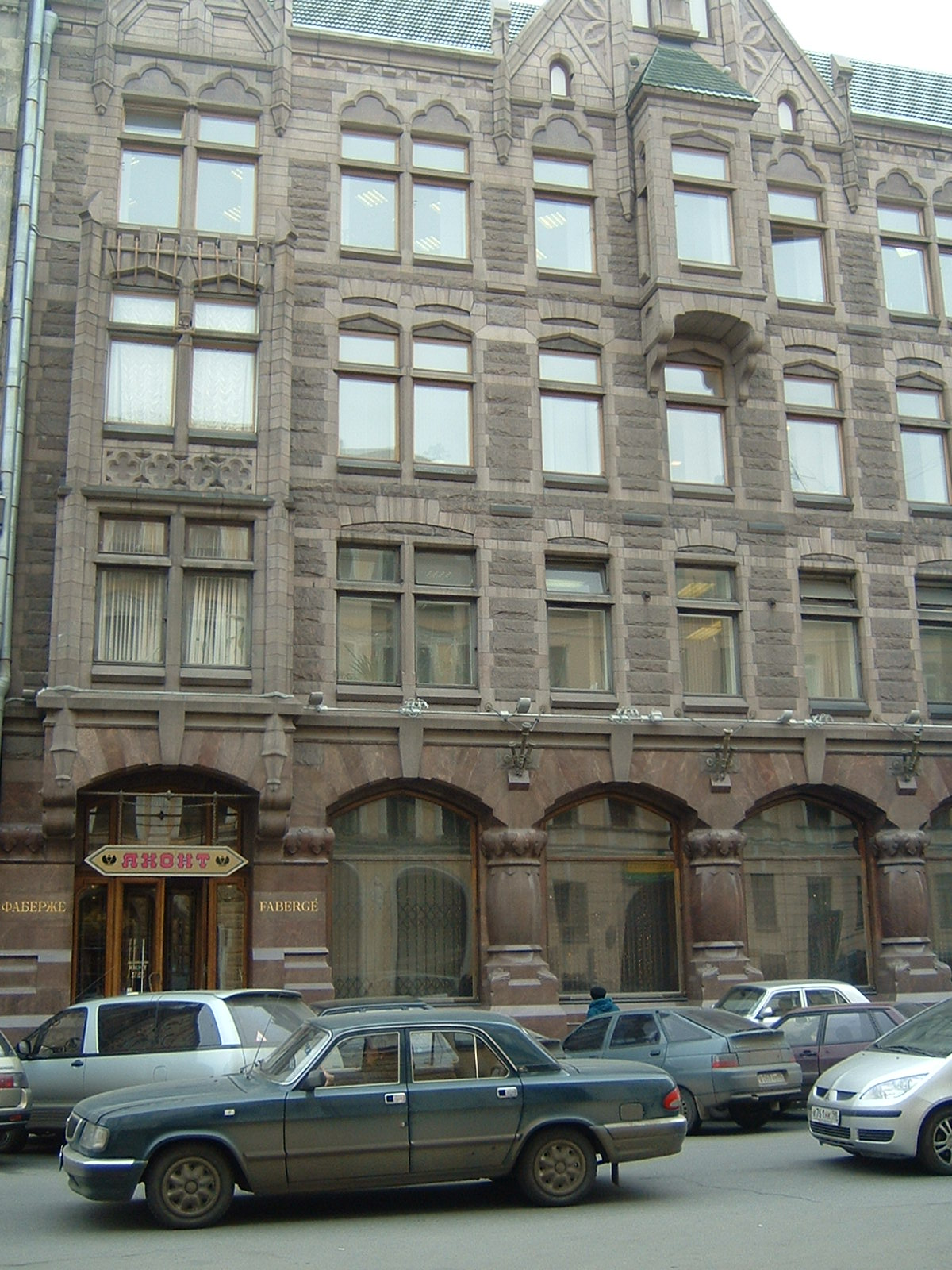 The Faberge store in Saint-Petersburg (Bolshaya Morskaya street, 24)